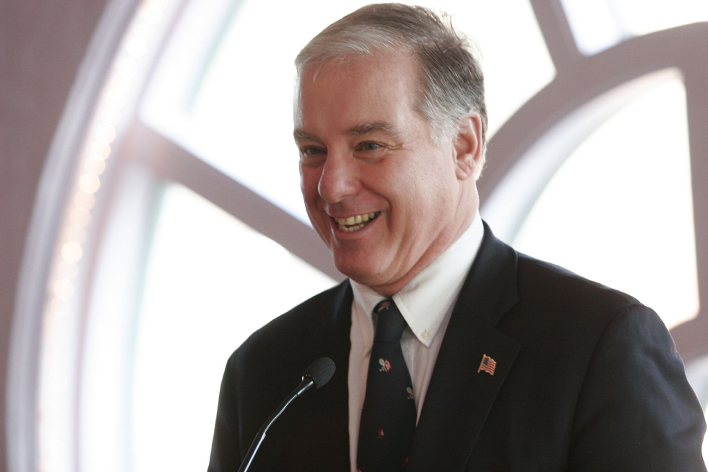 Howard Dean Speaks to a Group of Supporters in Kansas City, MO